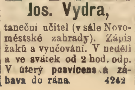 Classified ad of dancing classes led by Josef Vydra